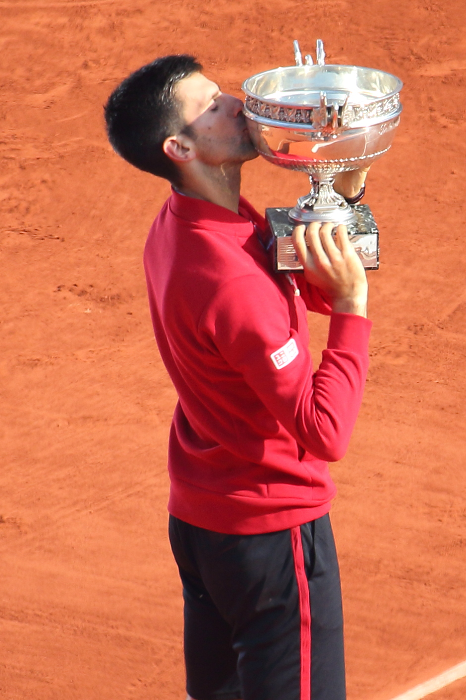 Djokovic winning the 2016 French Open